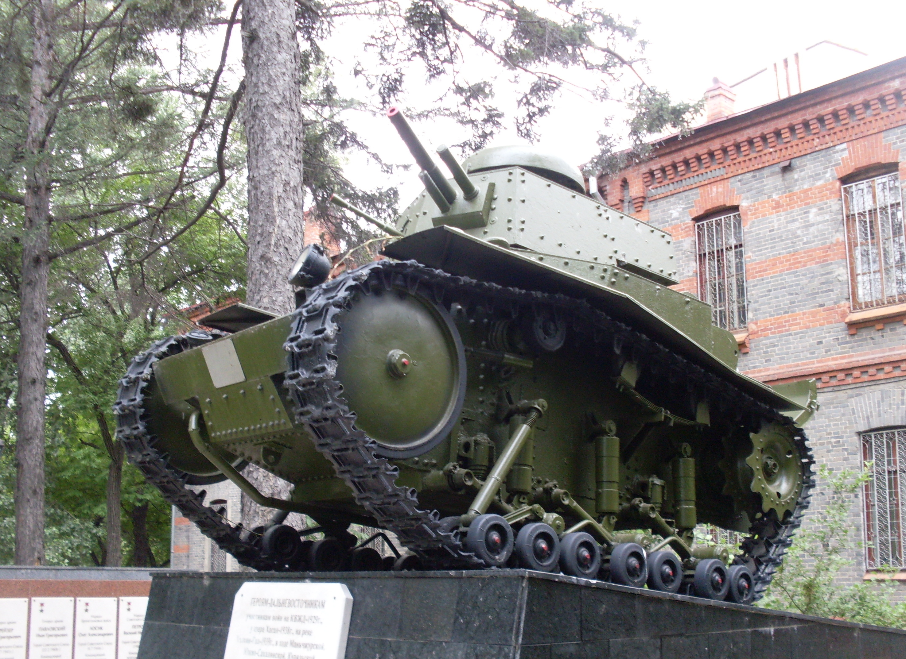 Tank T-18 - a monument in Khabarovsk